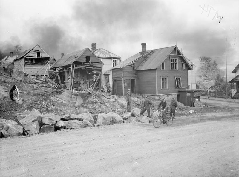 The British Army in Norway April - June 1940 Devastation in Harstad after a German air raid.